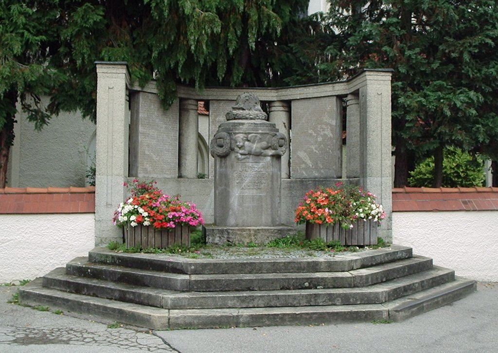 War memorial (after World War I), Fellererplatz, Solln, Munich, Germany.